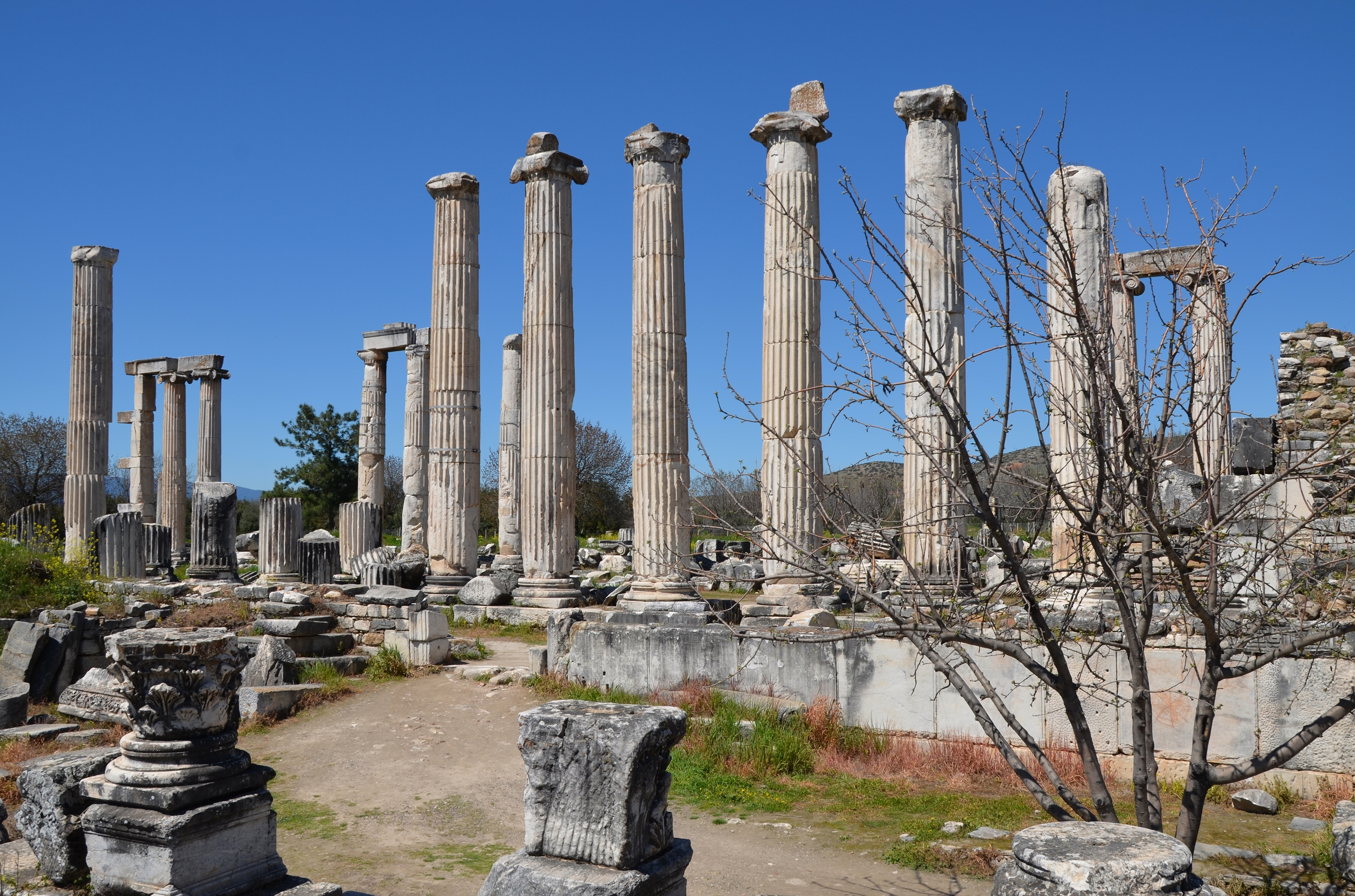 The Temple of Aphrodite, built in the Ionic order in stages during the Roman period (from 1st century BC to 2nd century AD) and later converted into a Christian basilica, Aphrodisias, Caria, Turkey